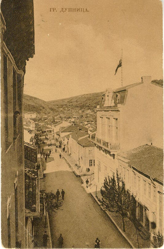 old Dupnitsa